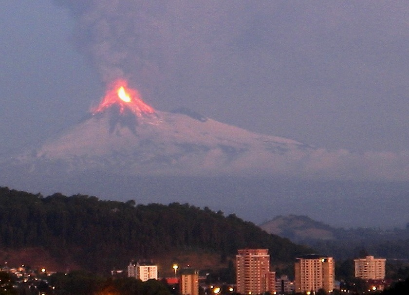 Llaima volcano eruption viewed from Temuco (Araucanía Region, Chile)